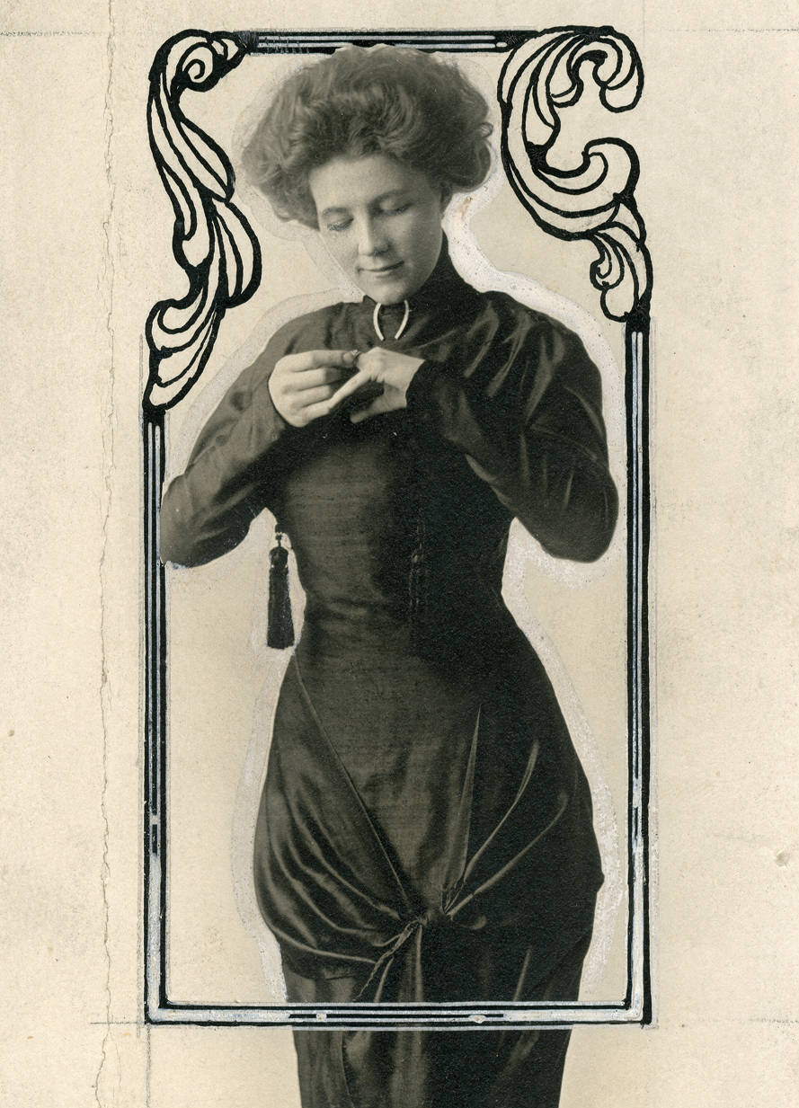 Stage actress Nana Bryant. Subjects: actresses